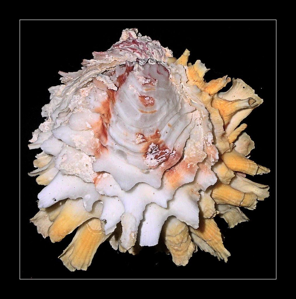 Shell of Chama lazarus (Bivalvia: Veneroida: Chamidae) from a sea cave on Siargao Island (Mindanao, Philippines).